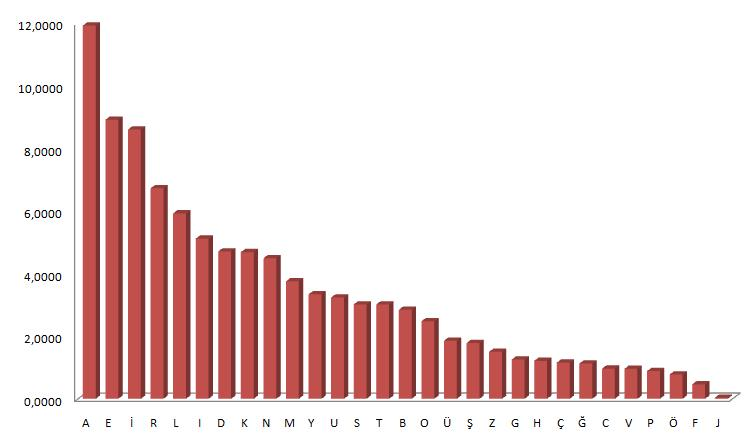 Turkish Letter Frequencies Ordered